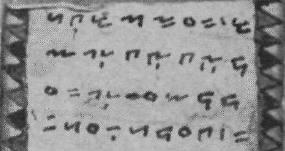 Detail of a Kerinci Rencong manuscript (KITLV Or. 239), written in Malay with local language (Kerinci) influence, possibly pre-Islamic. The text reads (Voorhoeve's spelling): "haku manangis ma / njaru ka'u ka'u di / saru tijada da / tang [hitu hadik sa]", which is translated by Voorhoeve as: "I am weeping, calling you; though called, you do not come" (hitu adik sa- is the rest of 4th line).